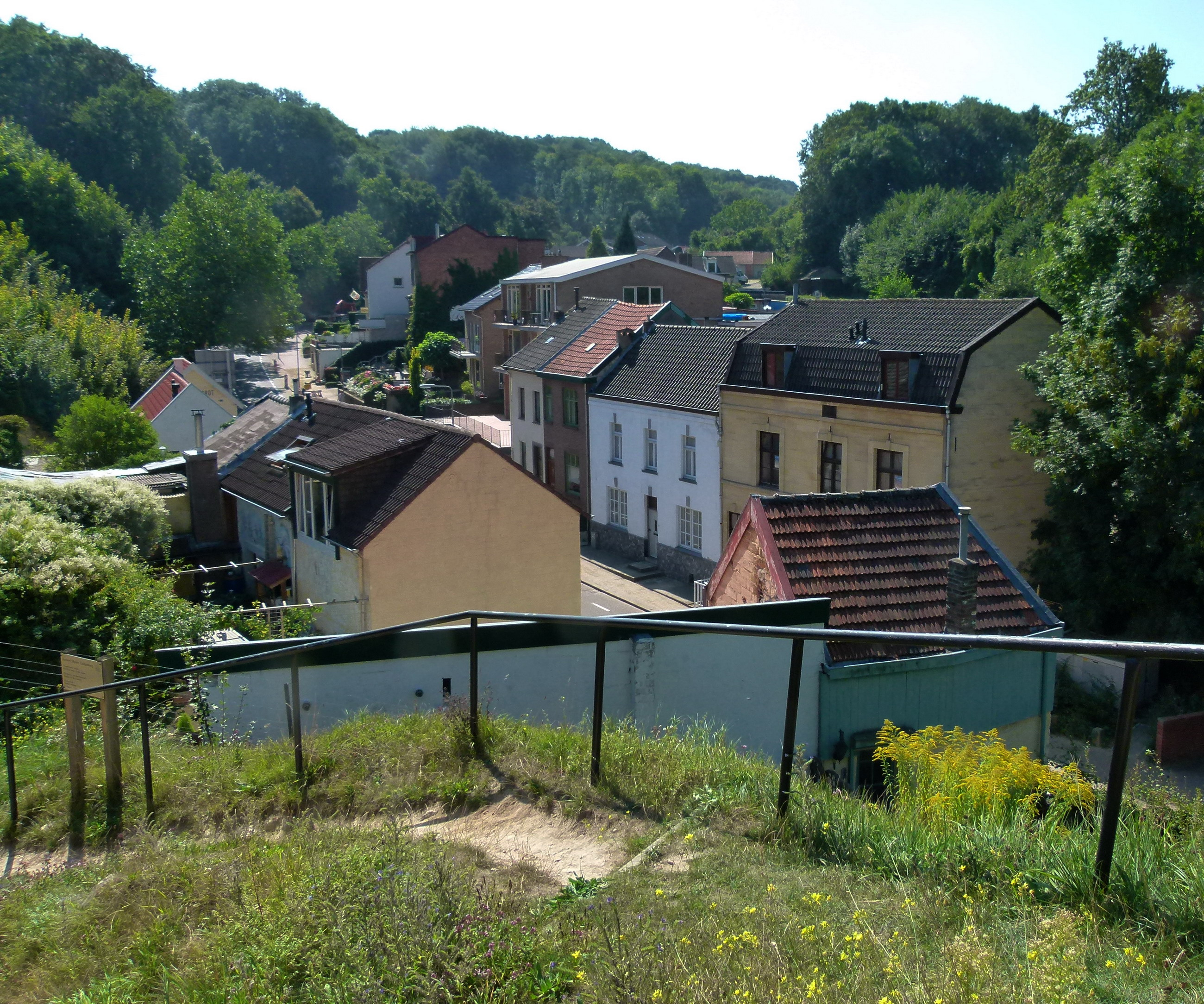 Valkenburg, Limburg, the Netherlands. View of Daalhemerweg from Valkenburg Castle.